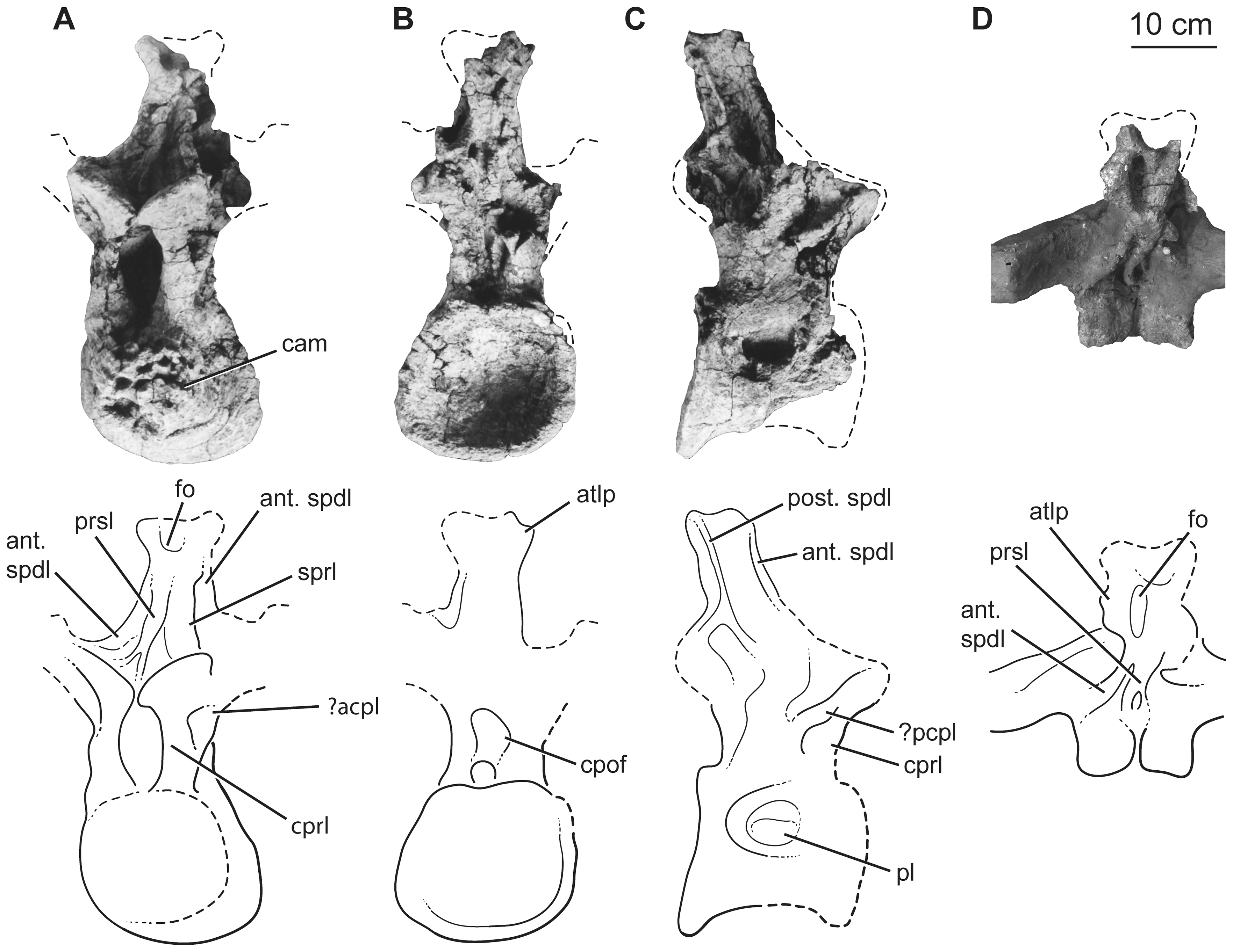 Holotypic dorsal vertebra of Huabeisaurus allocotus (HBV-20001) from the Upper Cretaceous of Shanxi, China. Photographs and line drawings of middle-posterior dorsal vertebra in (A), anterior, (B) posterior, (C), right lateral, and (D), dorsal views. Abbreviations: ant. spdl, anterior spinodiapophyseal lamina; atlp, anterior transverse lateral process; cam, camerate internal pneumaticity exposed on broken bone surface; cpof, centropostzygapophyseal fossa; cprl, centroprezygapophyseal lamina; fo, fossa; ?pcpl, ?posterior centroparapophyseal lamina; post. spdl, posterior spinodiapophyseal lamina; sprl, spinoprezygapophyseal lamina; pl, pneumatic foramen (pleurocoel) in centrum; prsl, prespinal lamina. Dashed lines indicate broken bone margins.